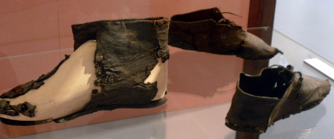 12th-century leather shoe found in Wolfstraat, now in the archeological collection of Centre Céramique, Maastricht, the Netherlands.